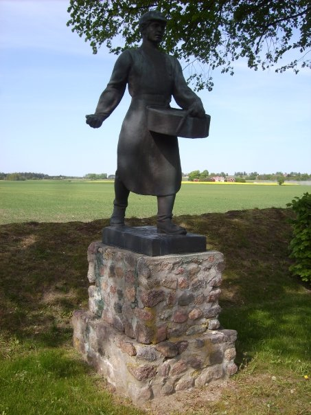 Såningsmannen (1949) by Gottfrid Larsson (1875–1947) in Vallerstad, outside the town Skänninge, Östergötland, Sweden.